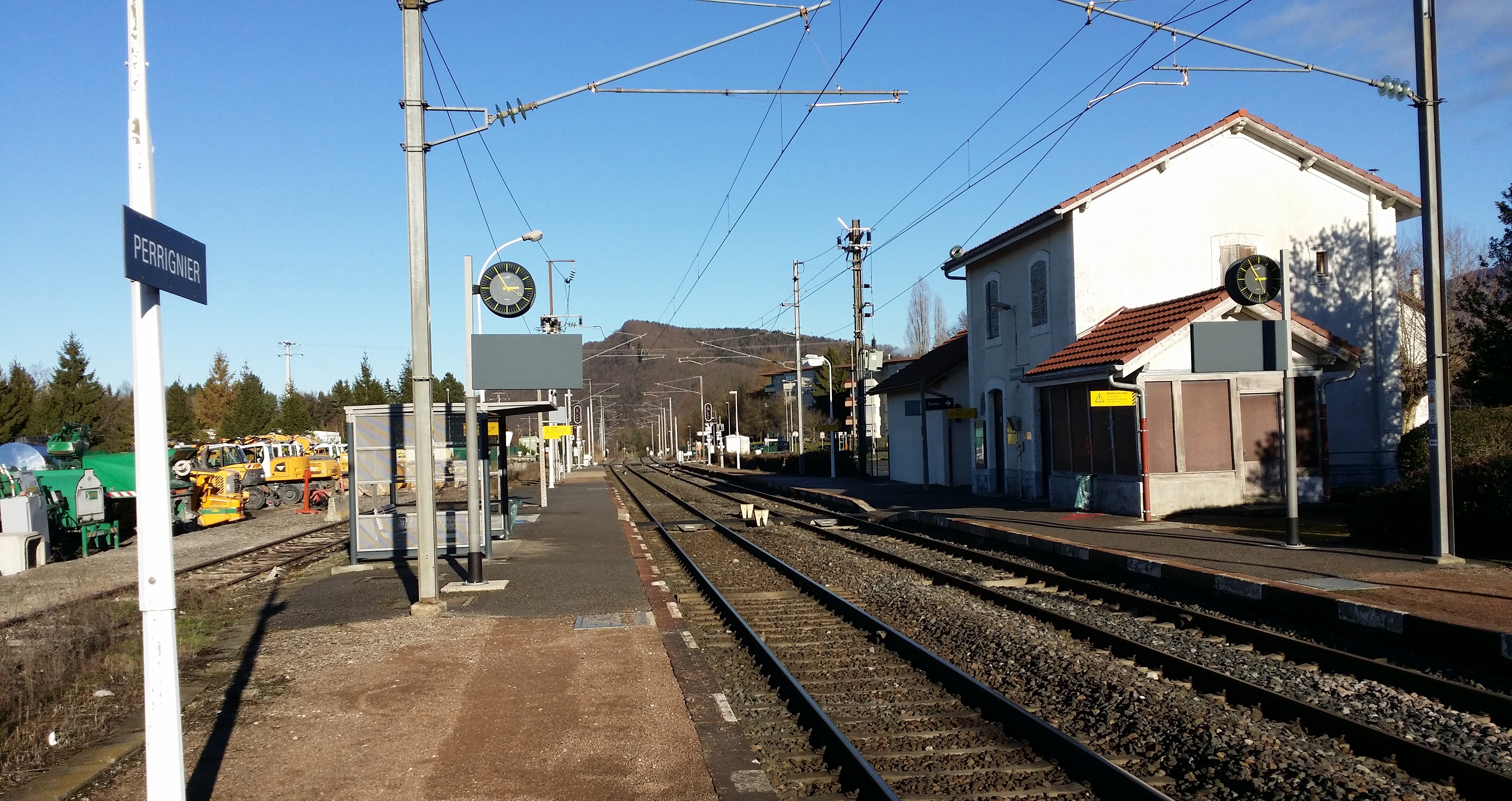 Perrignier station tracks